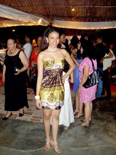 Zoureena Rijger at Bayside